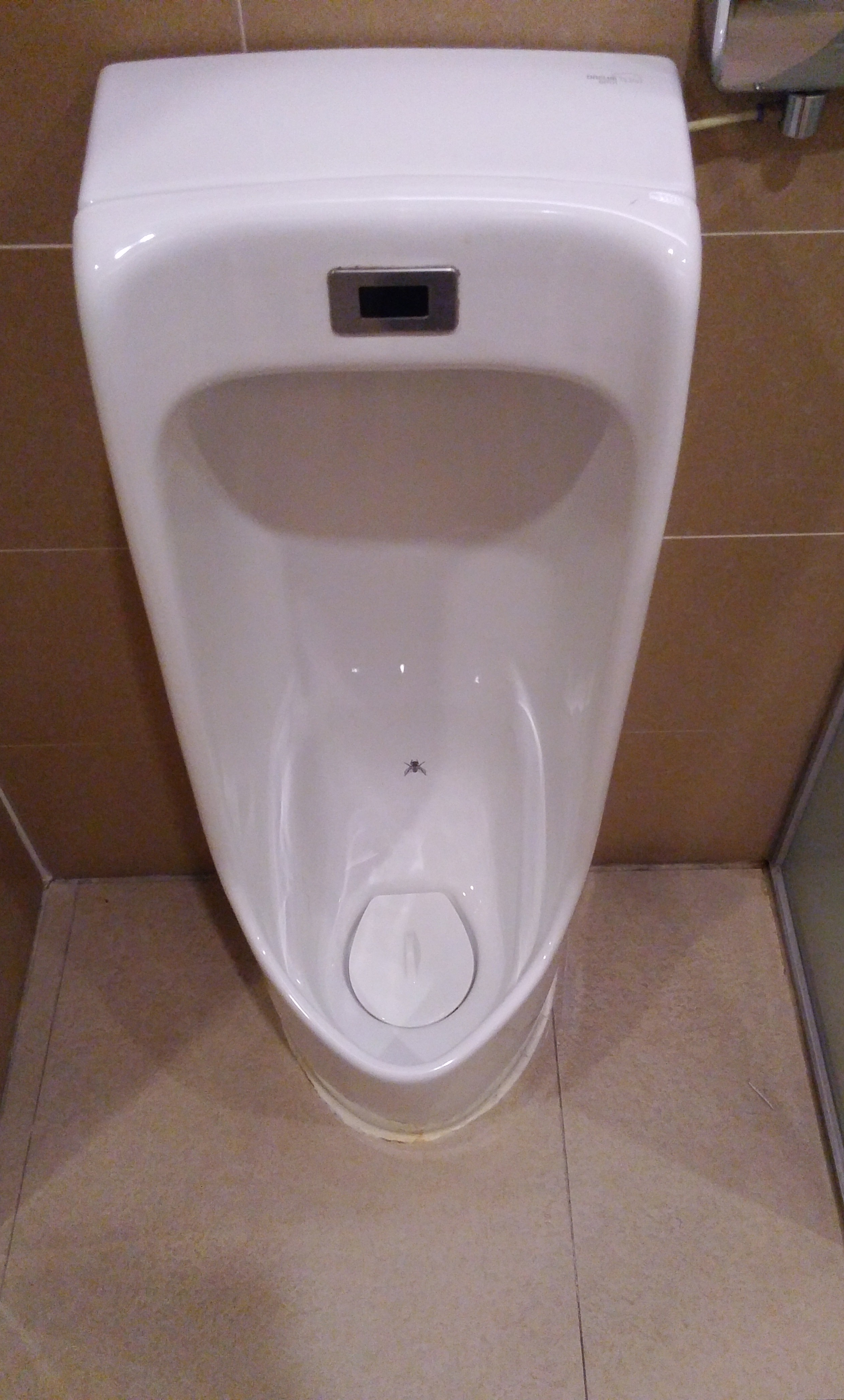 A nudging toilet in Seoul, Korea.